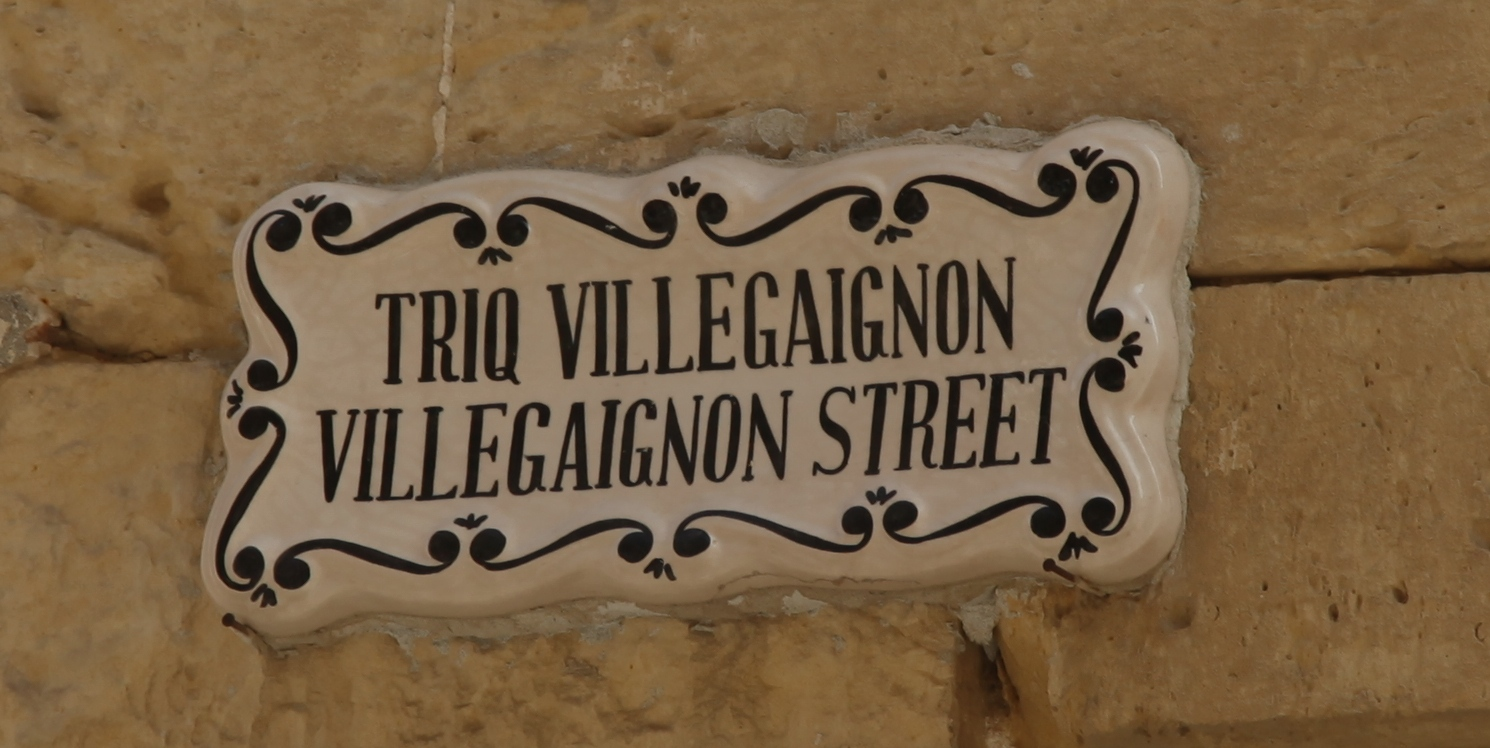 From the Villegaignon street in Mdina, Malta. Streetsign